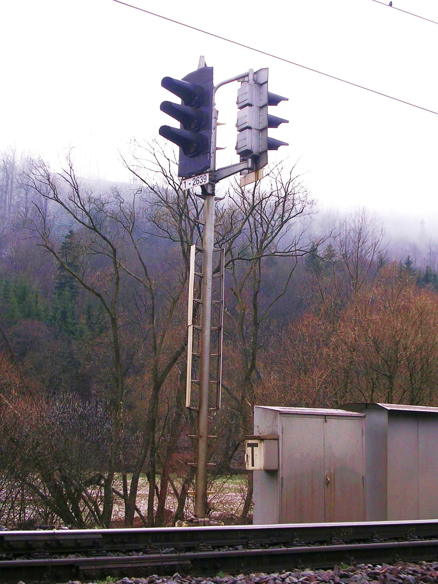 Railway signals between train stop Bezpráví and train station Brandýs nad Orlicí, the Czech Republic.